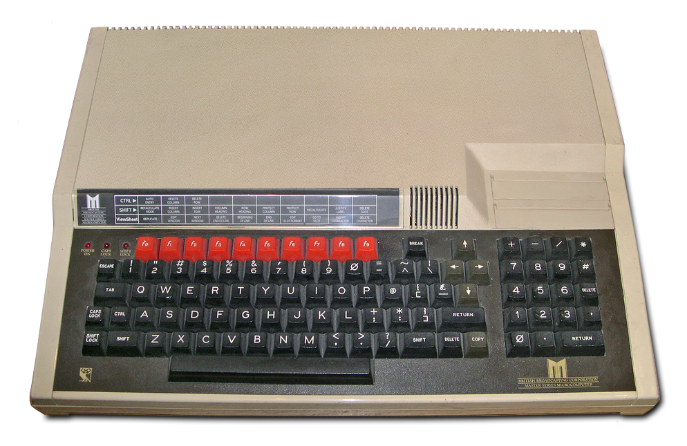 BBC Master Series Mirocomputer by Acorn Computers. (White background).